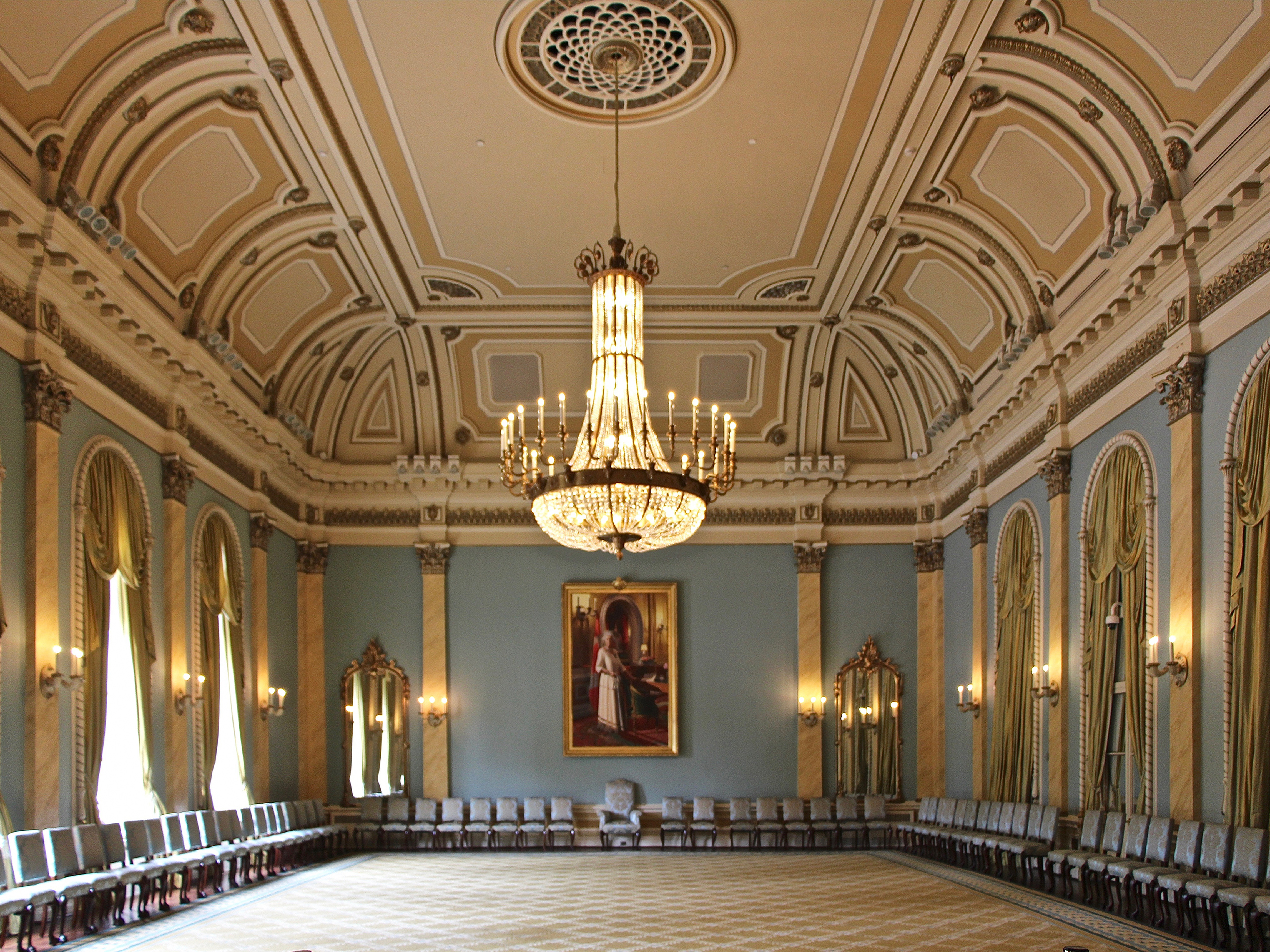 Ball room, Rideau Hall, 1 Sussex Drive, Ottawa, ON K1A 0A1.